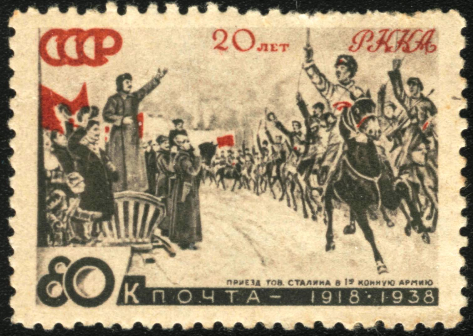 Soviet postage stamp of 80 kopeks from 1938. XX anniversary of Red Army (1918-1938). 1st Cavalry Army (based on painting of M. Avilov in 1933), with incription: "Comrade Stalin visits 1st Cavalry Army".